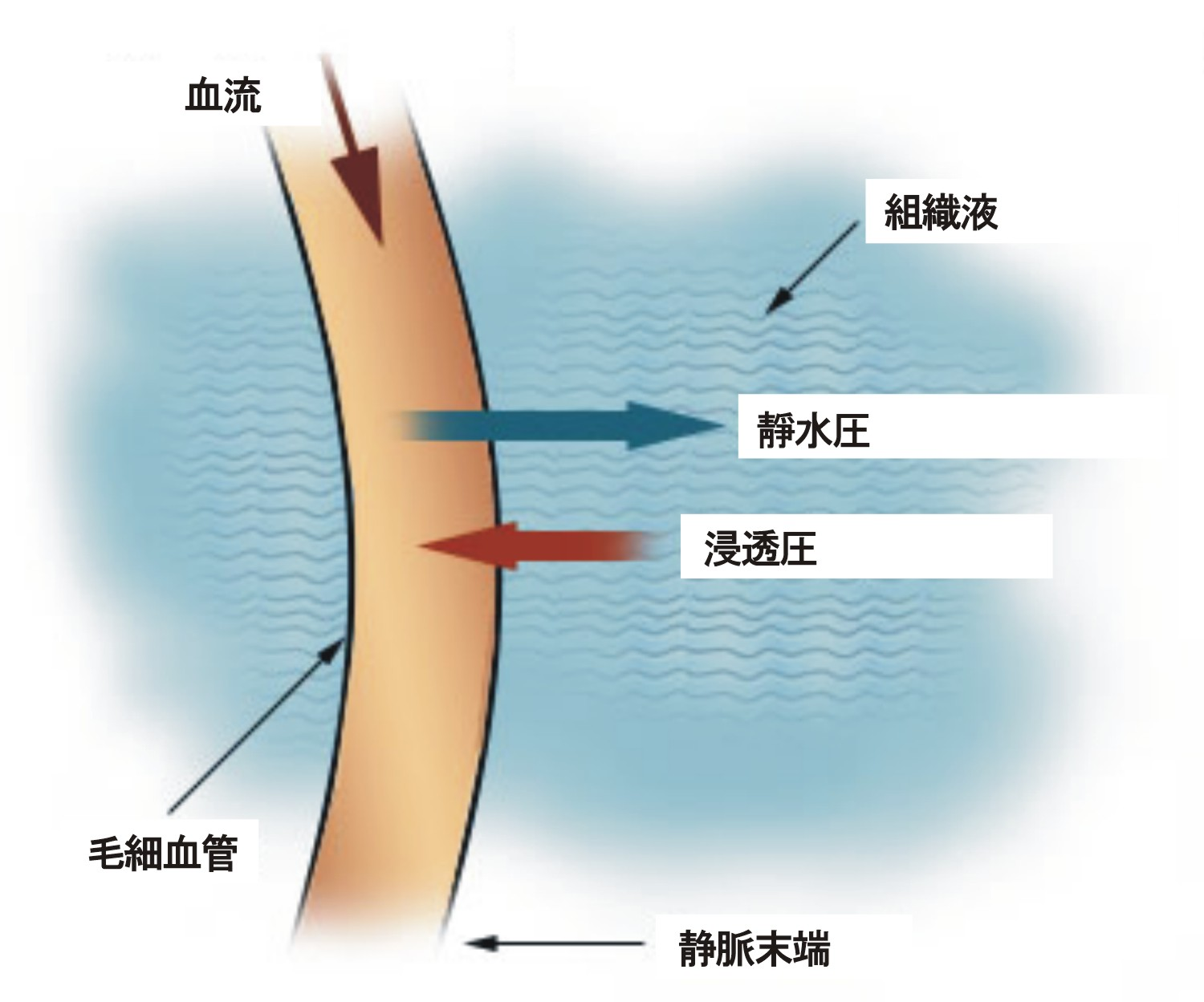 Japanese labels are substituted for English ones.